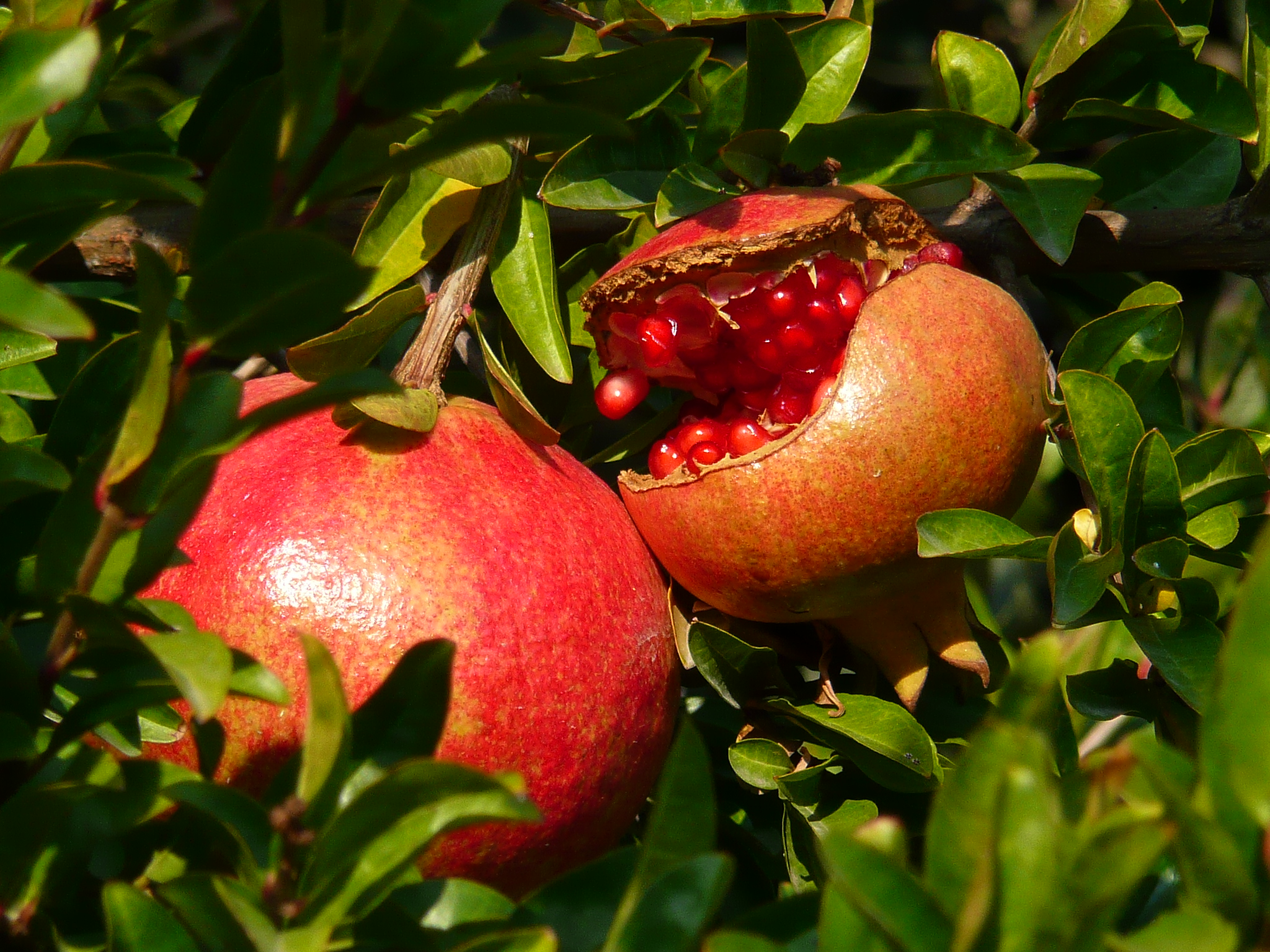 Nice on black